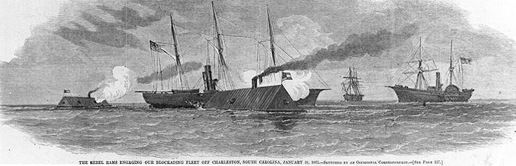 CSS Chicora, with John Randolph Tucker in command, and CSS Palmetto State attacking Union warships in Charleston Harbor, January 31, 1863. U.S. Naval History and Heritage Command Photograph #: NH 59304 "The Rebel Rams engaging our Blockading Fleet off Charleston, South Carolina, January 31, 1863 Line engraving published in Harper's Weekly, January-June 1863, page 117, depicting CSS Chicora and CSS Palmetto State attacking USS Mercedita, with USS Keystone State at right."